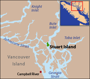 This is a locator map of Stuart Island. I, Pfly, made it with ArcGIS, Adobe Illustrator, and Adobe Photoshop. The coastline data is from the Digital Chart of the World.